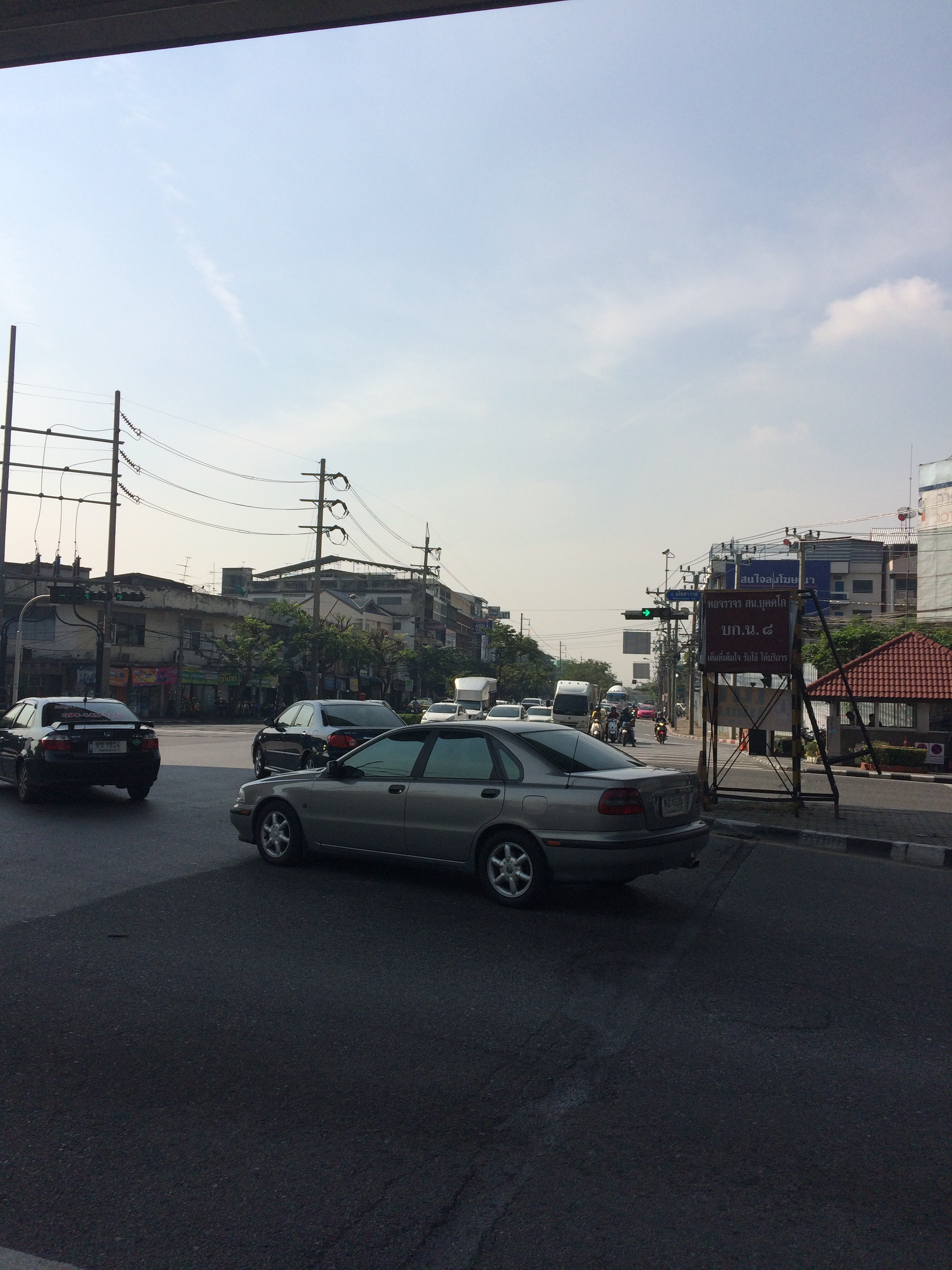 Thanon Charoen Nakhon